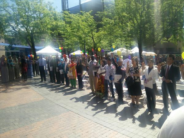 15 people from ten countries take the United States Oath of Allegiance on World Refugee Day in Boise, Idaho.